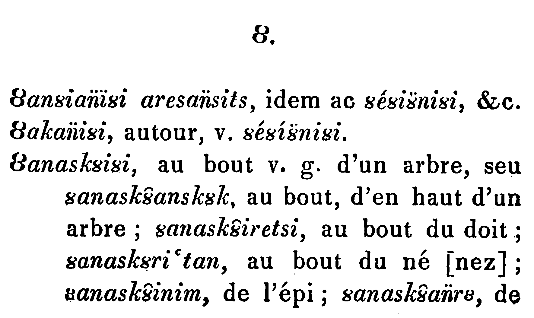 Ȣ (uppercase and lowercase) in Sébastien Rasles, A dictionary of the Abnaki language, 1833, p. 563